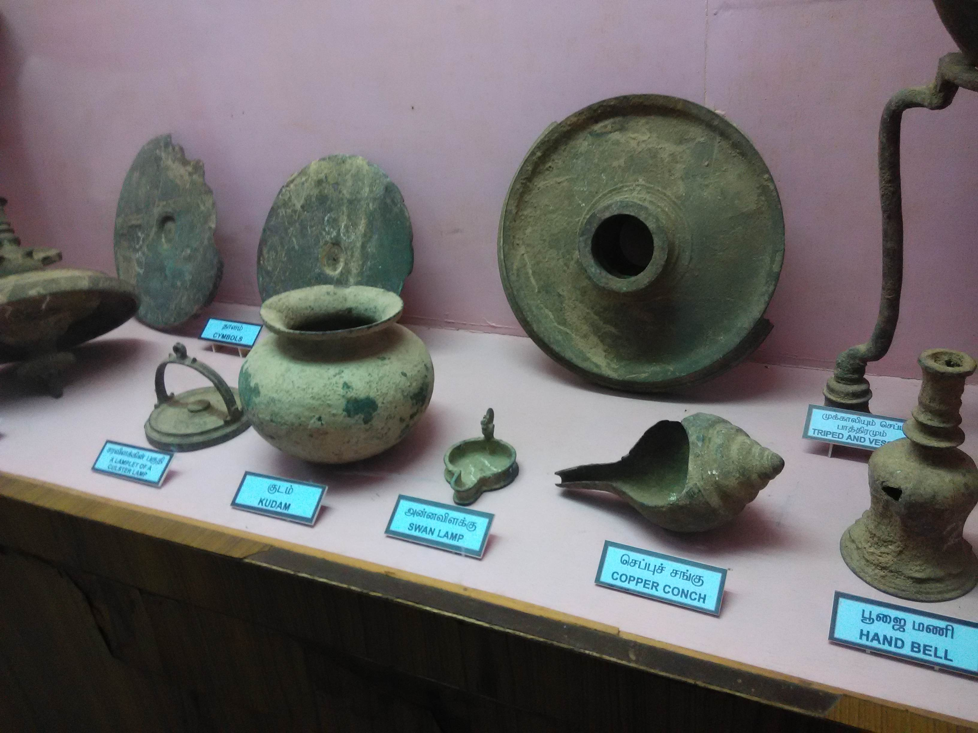 vessels used by ancient indian